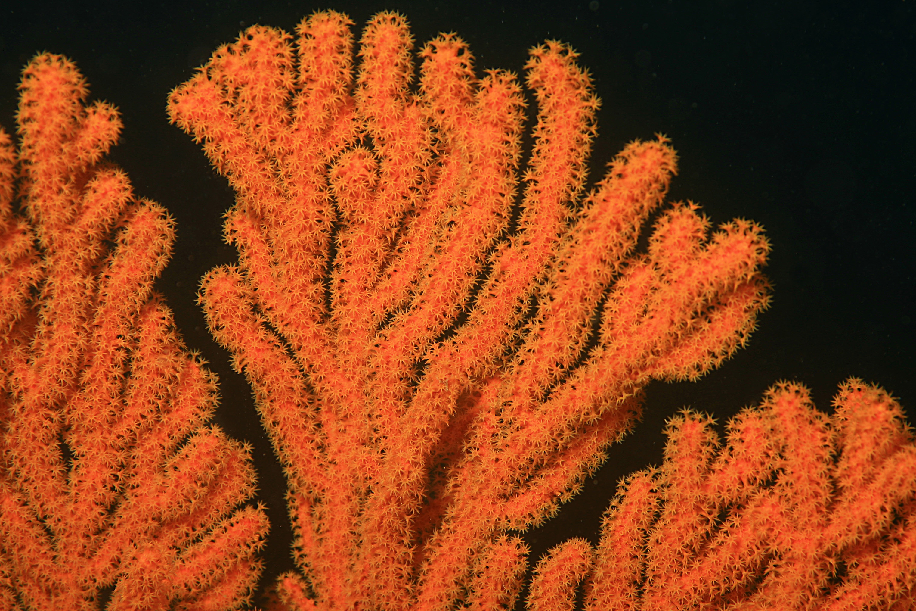 A Thousand Hungry Mouths to Feed